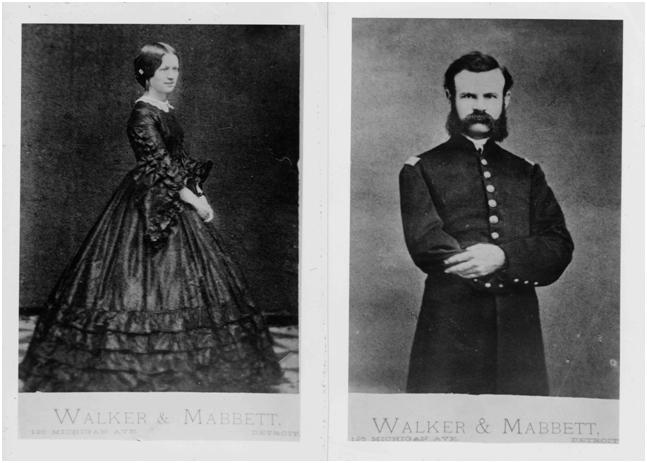 Two portraits, of John Wesley Powell and his wife, Emma Powell, in Detroit after JWP lost his arm in the Battle of Shiloh. These two portraits are held as still contact photos at the US National Archives and Records Administration, photo citation numbers 79-JWP-1 and 79-JWP-5.